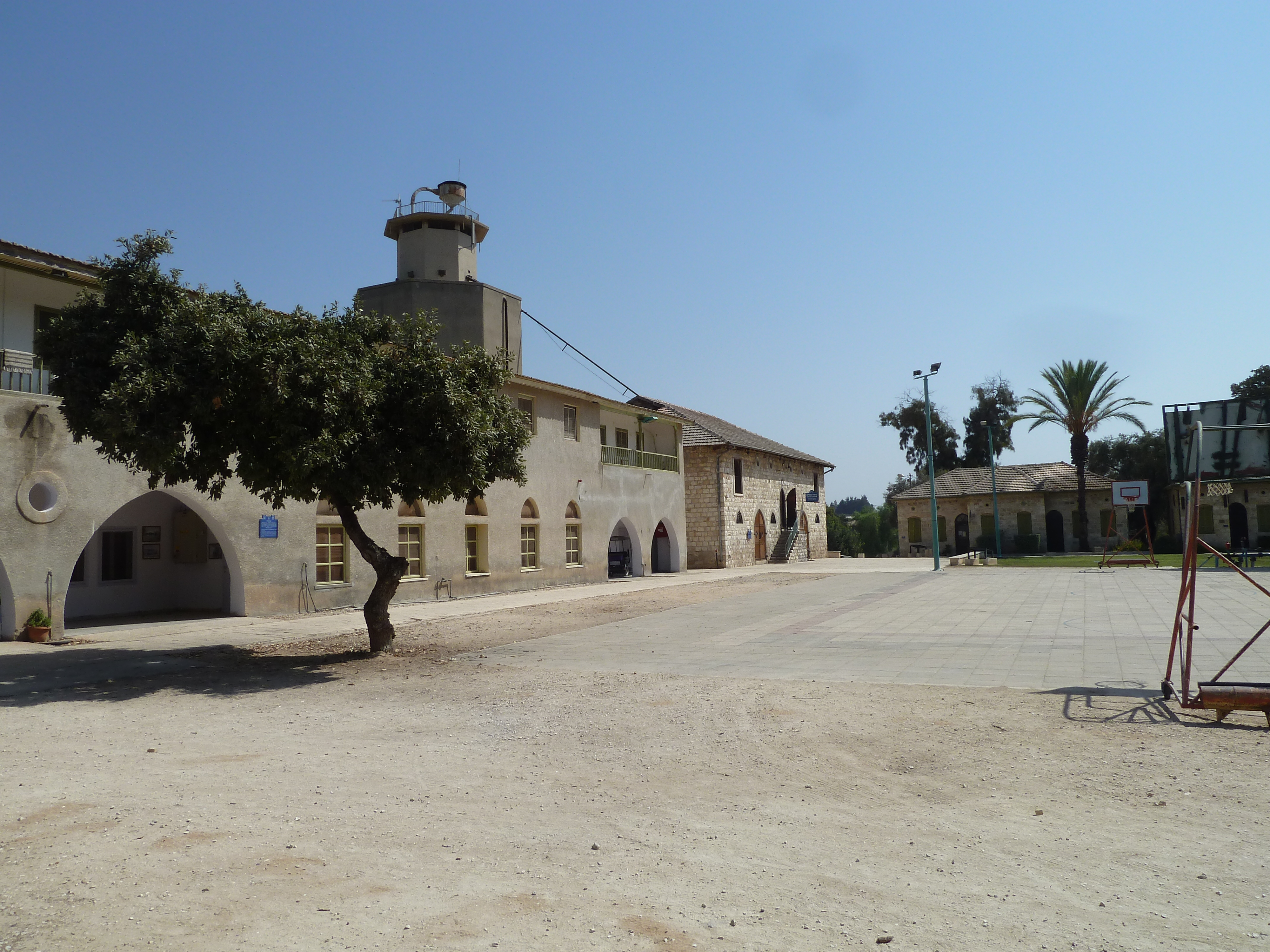 The Large Yard at Merhavia (Merhavia Courtyard)